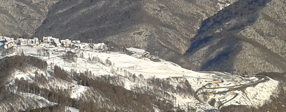 Rosa Khutor Extreme Park, part of the Rosa Khutor alpine complex at Krasnaya Polyana, Sochi, Russia. The freestyle/snowboard slope (used at the 2014 Winter Olympics) is visible in white.